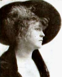 American comic actress Alice Howell, from page 3510 of the April 17, 1920 Motion Picture News.